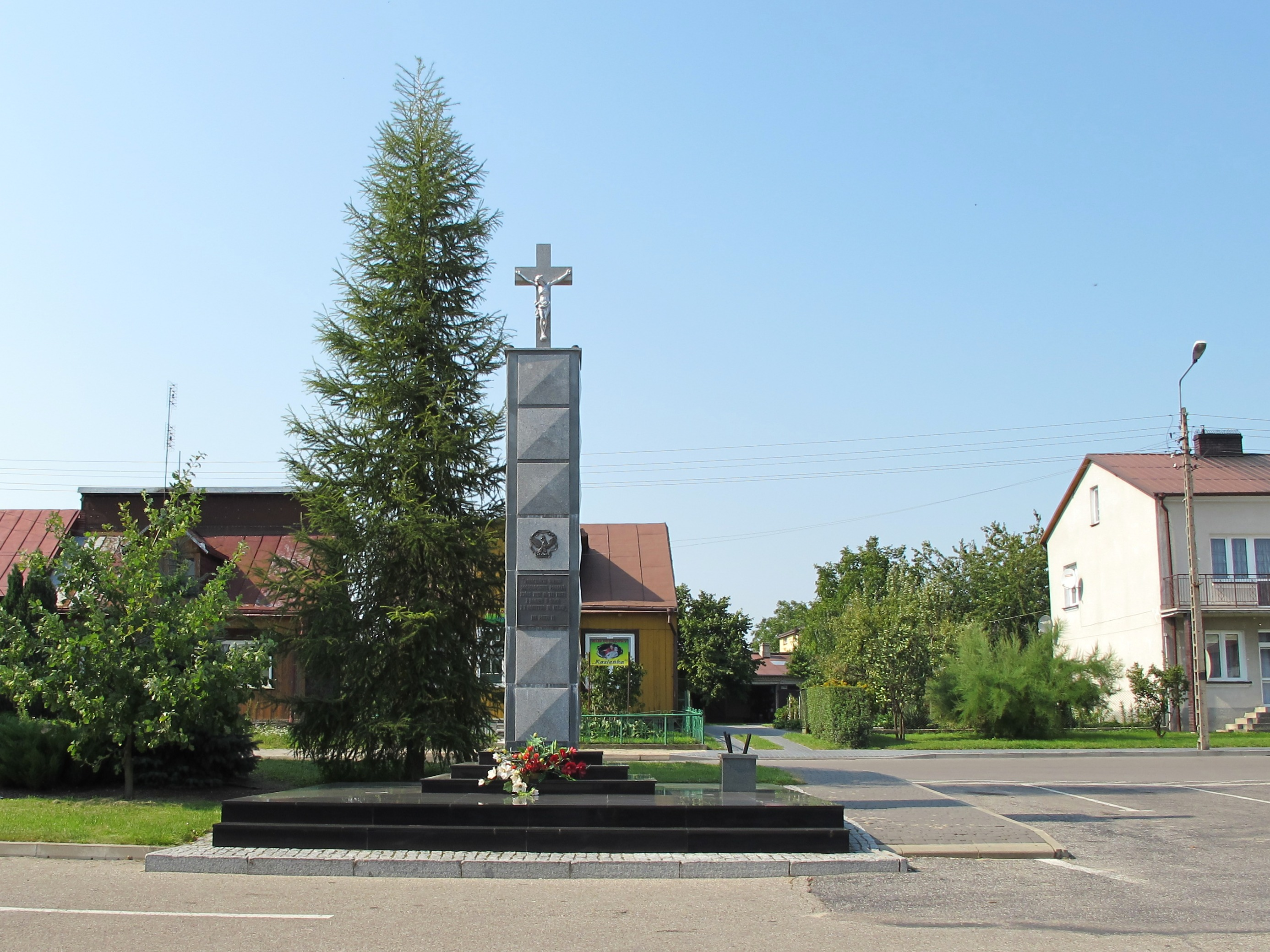 Monument at Mickiewicza square at Sokoły village, gmina Sokoły, podlaskie, Poland